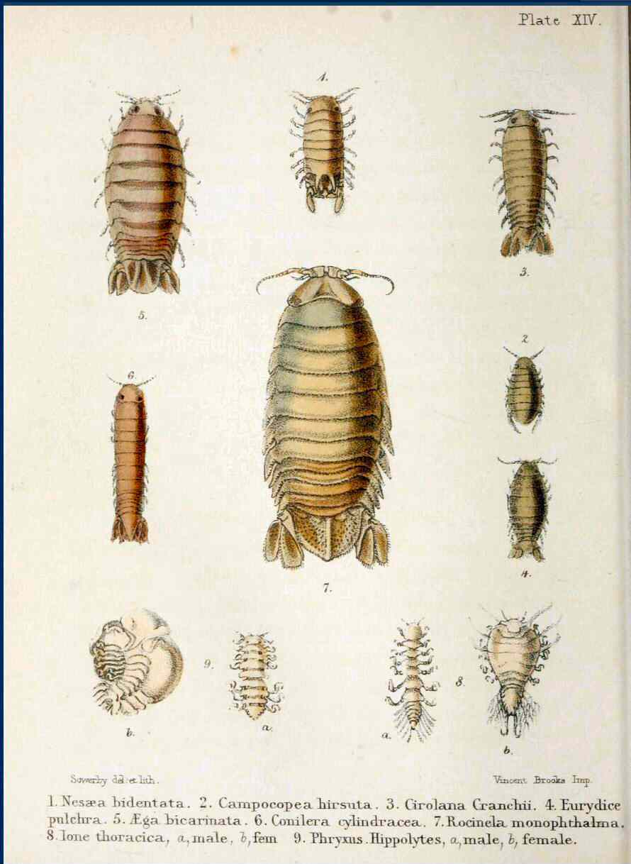 Illustration from Adam White's A Popular History of British Crustacea, Lovell Reeve, 1857. It shows three genera of crustacea named by William Elford Leach as anagrams of Carolina: Cirolana, Conilera and Rocinela.